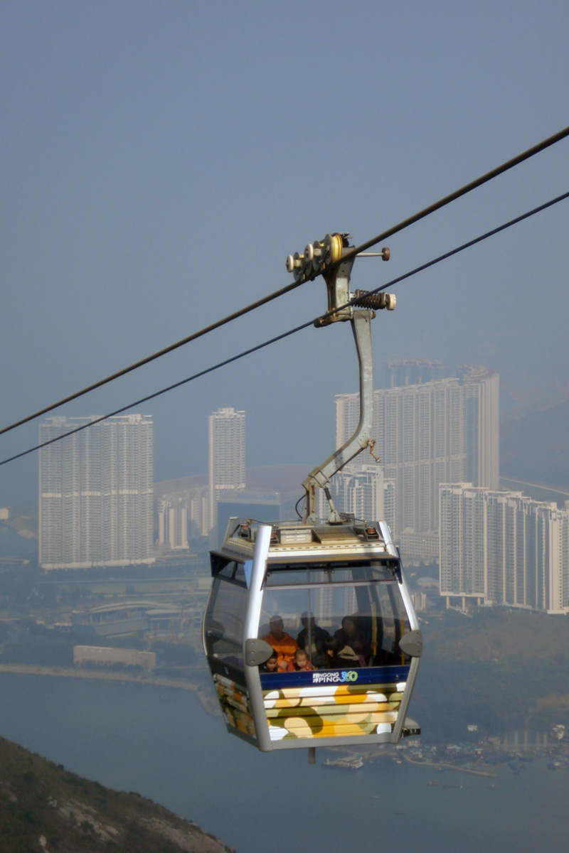 Ngong Ping 360 Cable Car in new colour